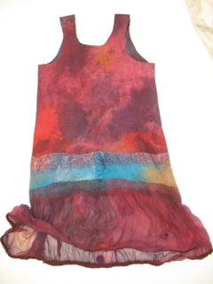 Amano Studios